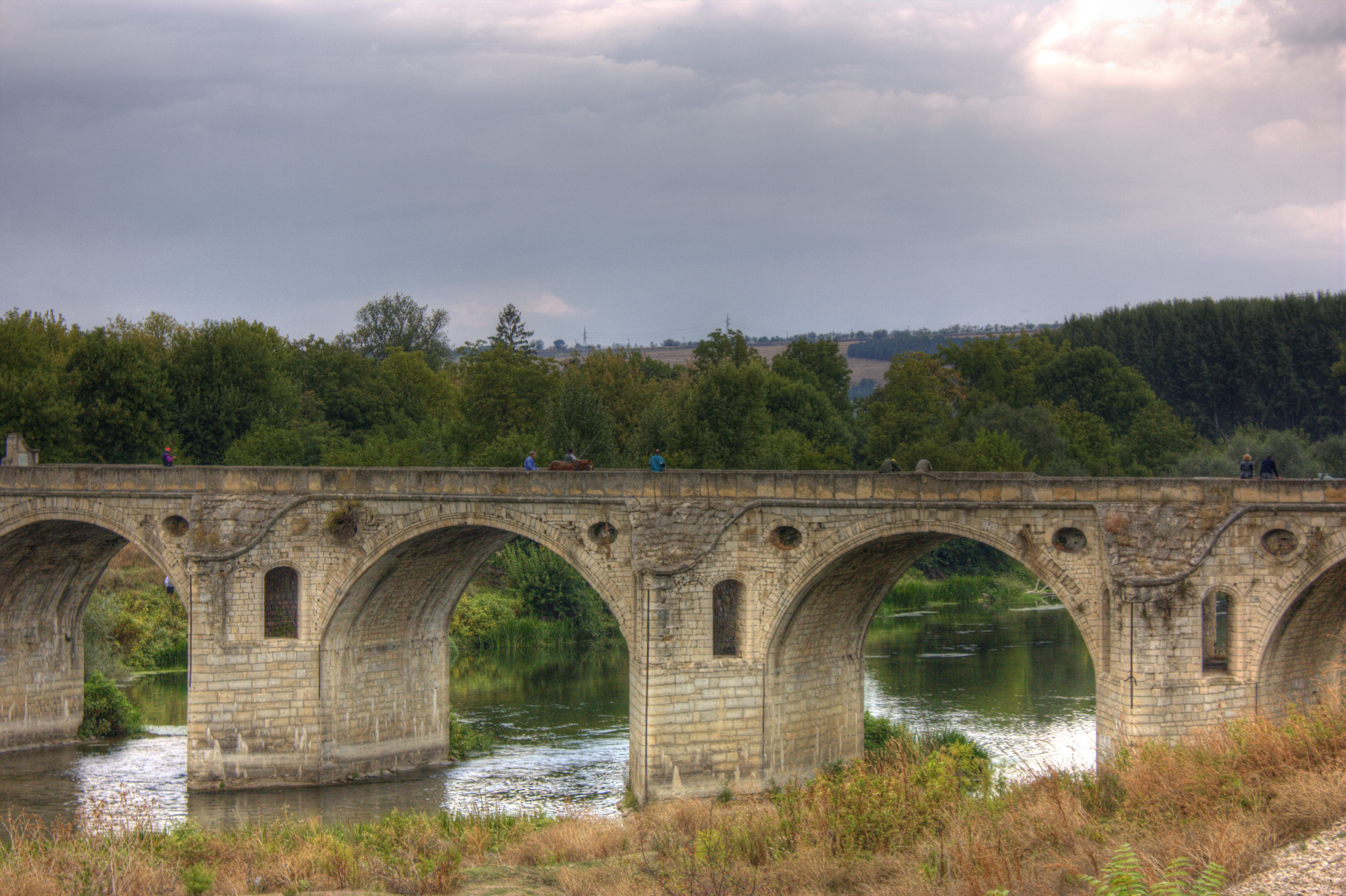 Belenski most (Byala Bridge), Bulgaria